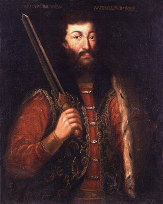 Parsuna (icon-like portrait) of Prince Alexander Nevsky. Chelyabinsk art gallery.